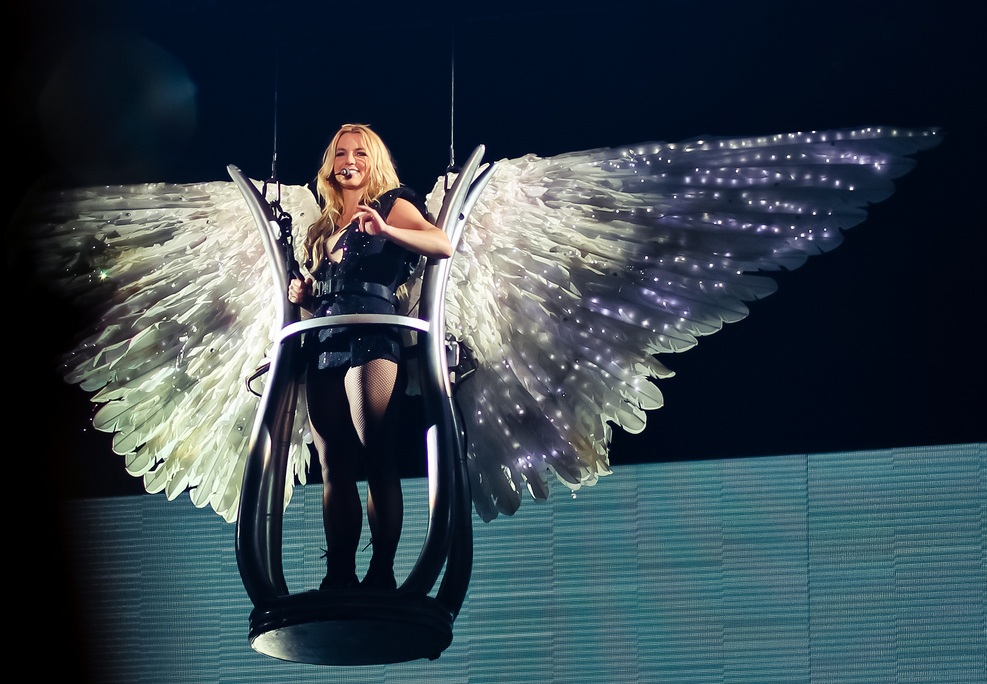 Britney Spears performing "Till the World Ends" at 2011's Femme Fatale Tour live in Ukraine.